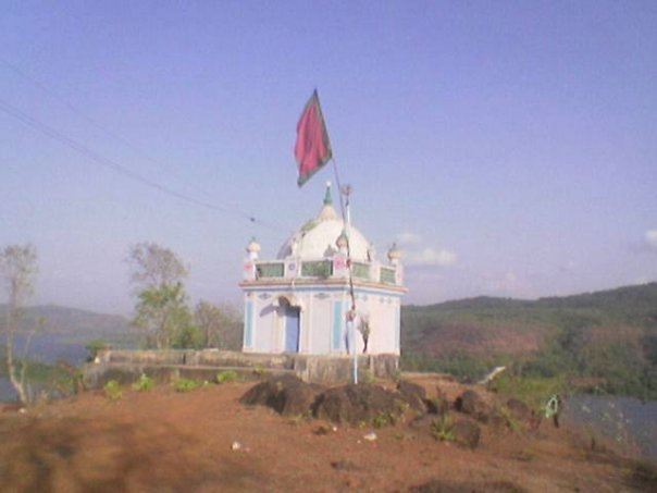 Urus